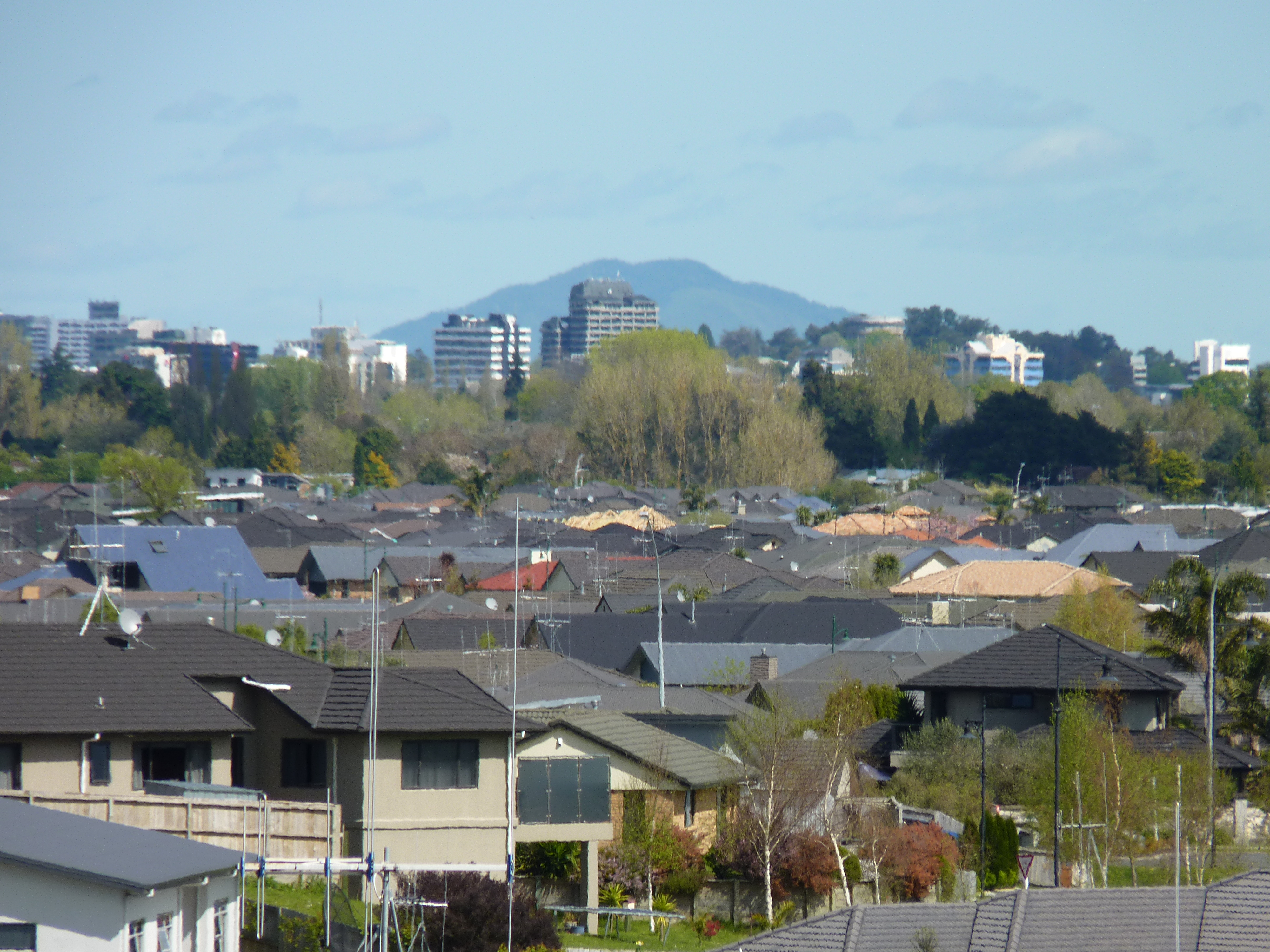 Hamilton CBD from Rototuna, northeast Hamilton.